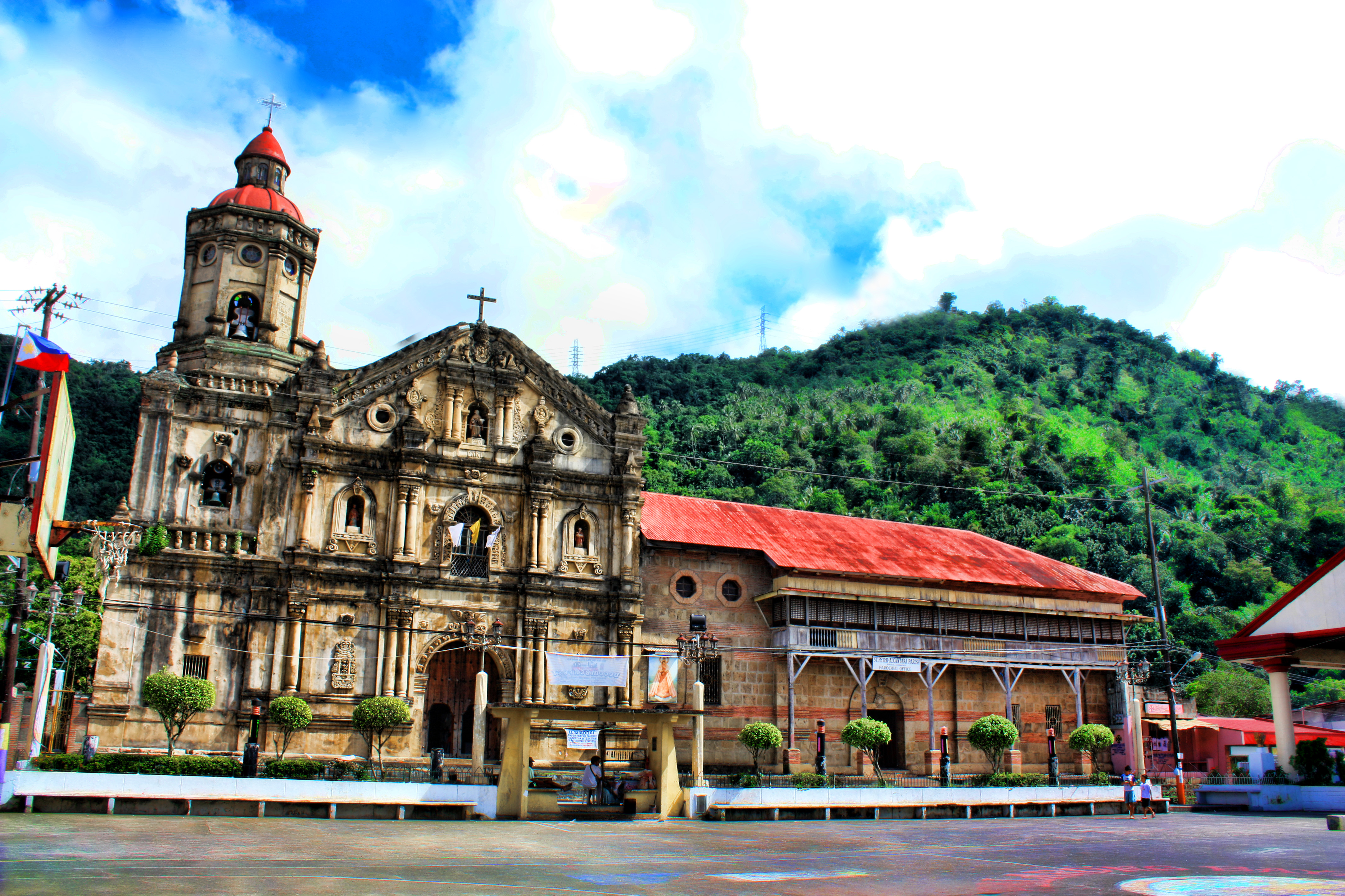 houses the Nuestra Senora de los Dolores de Turumba. The first church made of bamboo and nipa was built in 1676 when Pakil was separated from Paete. Construction for the current stone church and convent began in 1732 and was completed in 1737. The Virgin of Turumba was enshrined in the church in 1788. Parts of the church were destroyed during the fires of 1739 and 1851, and the earthquakes of 1881 and 1937.